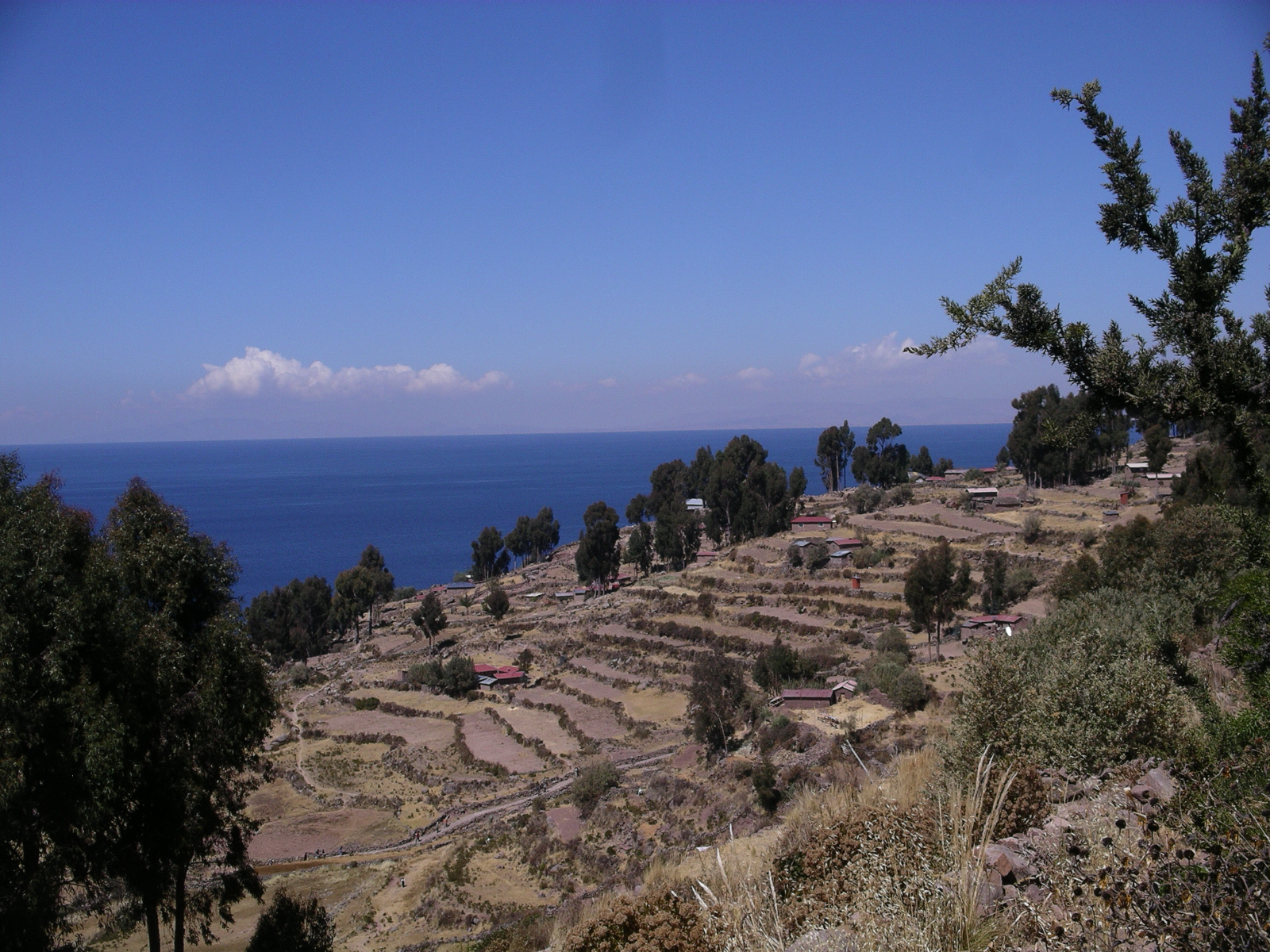 Terraces on Taquile Island, Lake Titicaca, Peru